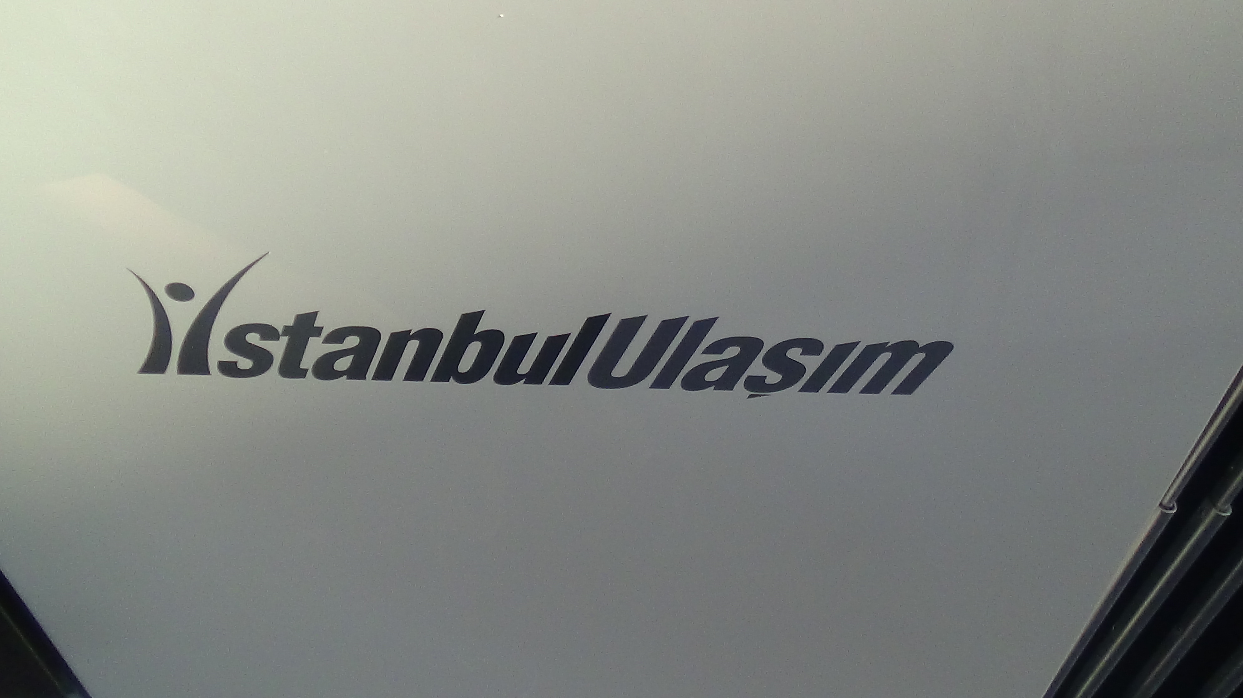 Istanbul Ulasim San. ve Tic. A.S. Istanbul Tram High floor light rail vehicle